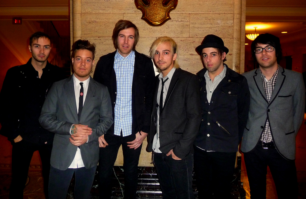 Group shot of The New Cities before the 2010 SOCAN Awards in Toronto, Ontario, on November 22nd, 2010